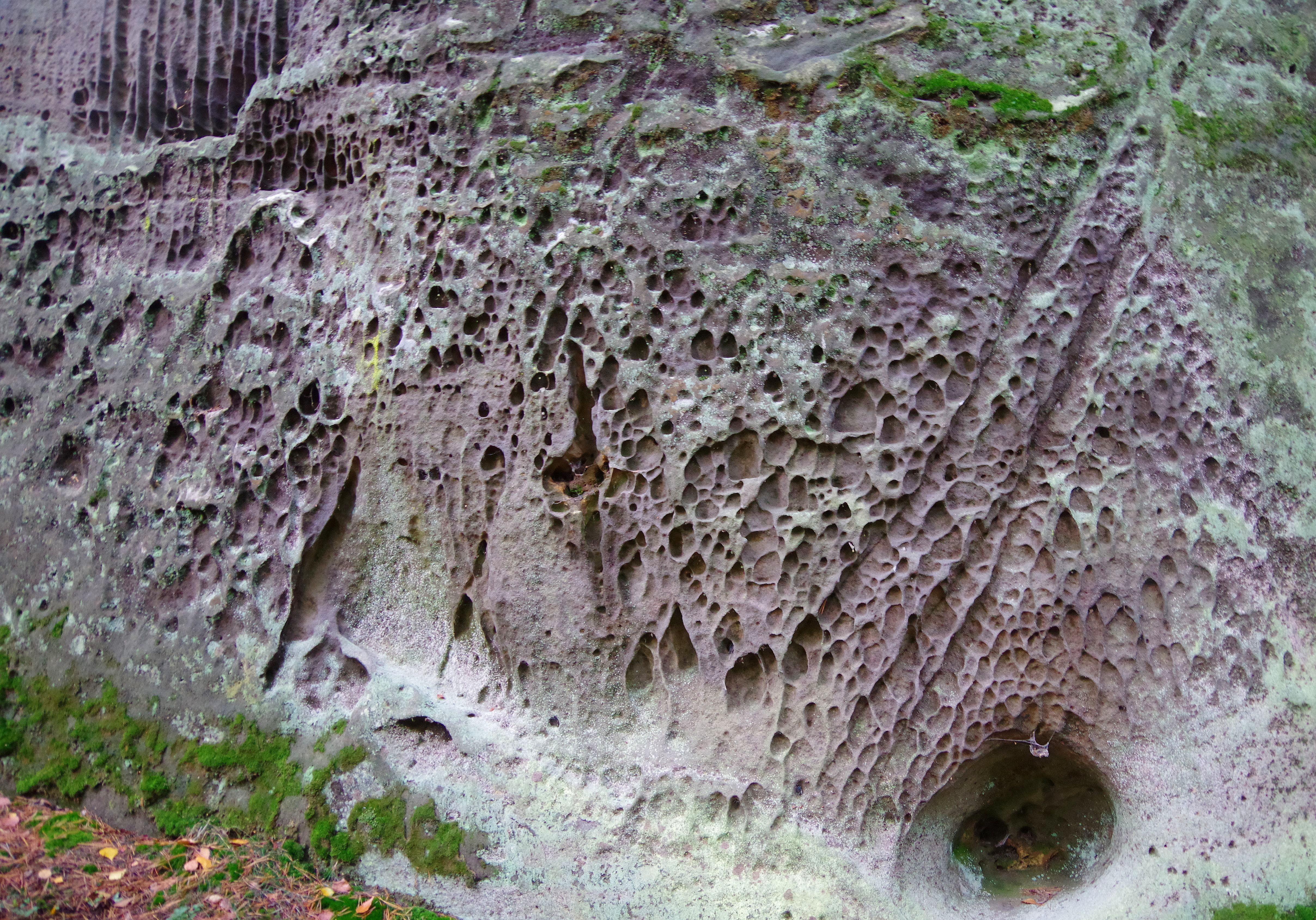 Geological phenomenon in Klokocske skaly